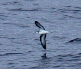 Black-winged Petrel (Pterodroma nigripennis) From Savusavu to Taveuni Ferry, Fiji Isles